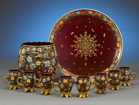 Ruby glass punch bowl set by Moser with gilt enamel detailing. Circa 1880